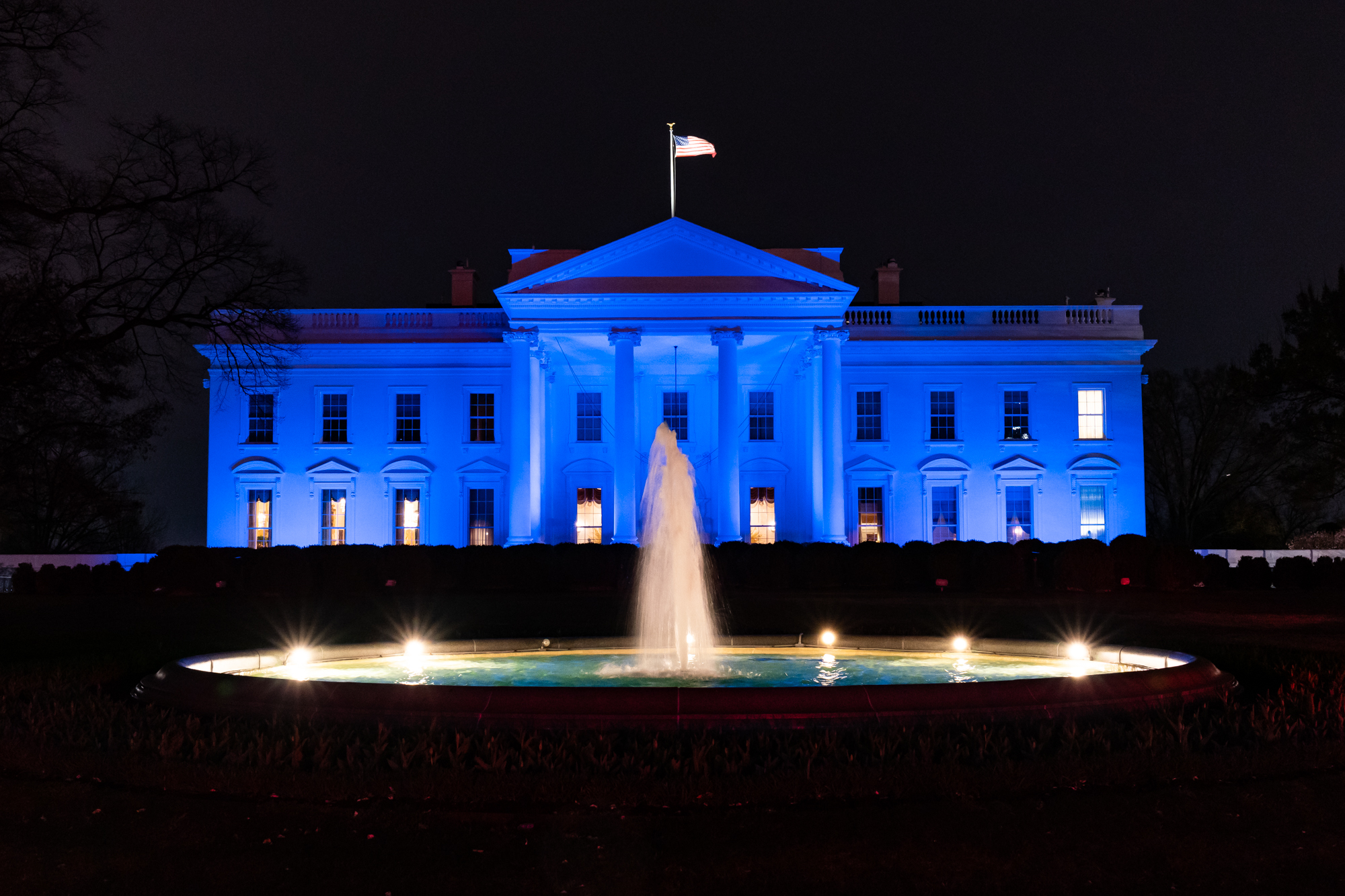 The White House illuminated blue for World Autism Awareness Day April 2, 2019 (Official White House Photo by Andrea Hanks)